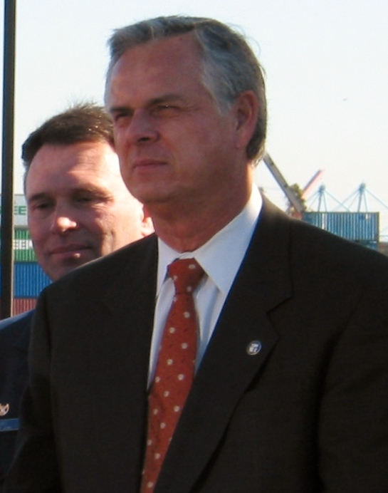 Senator Dianne Feinstein and former Mayor James Hahn — at the Port of Long Beach−Port of Los Angeles, California.